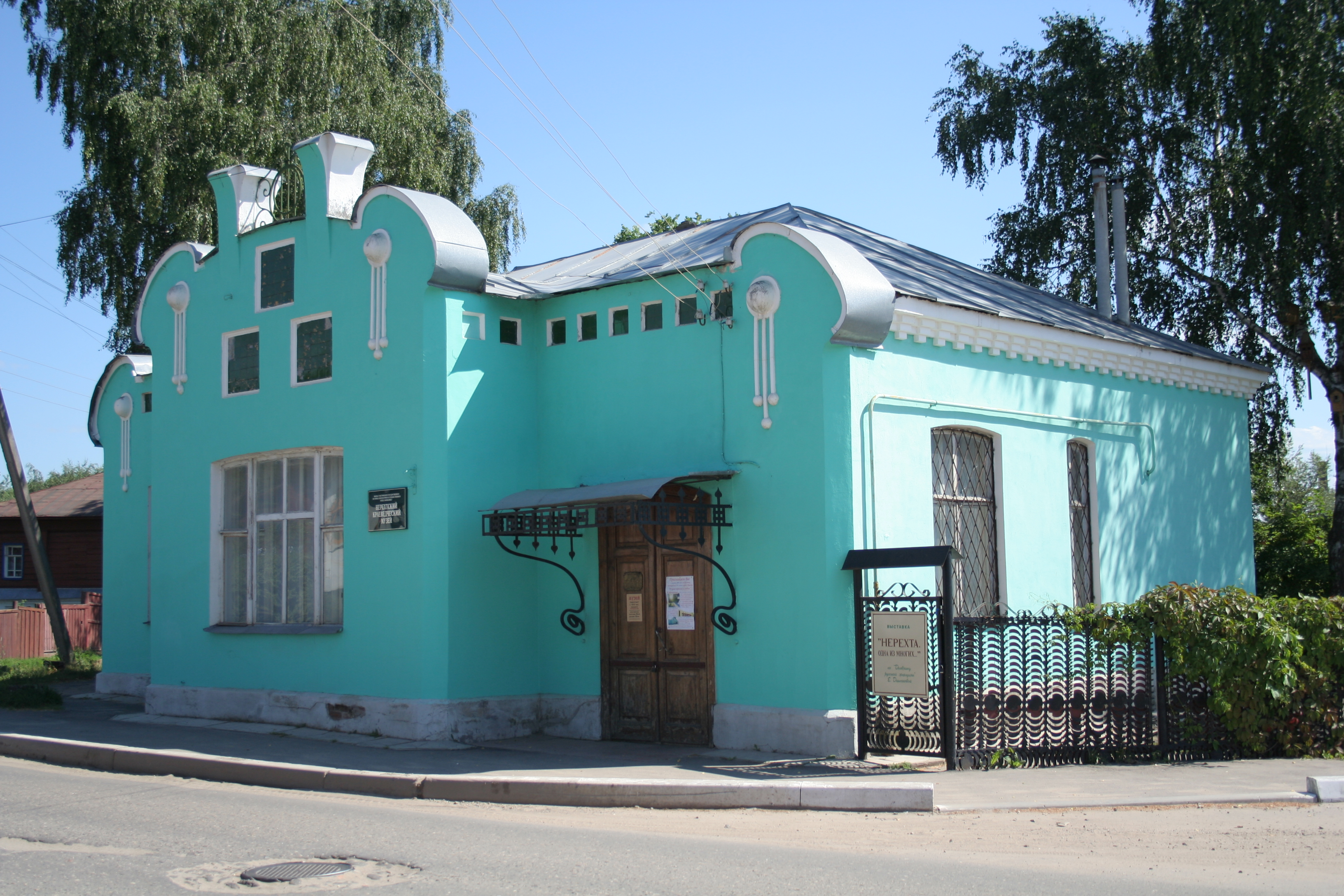 Views of Nerekhta, Kostroma Oblast, Russia. Museum of local history, a former pharmacy.